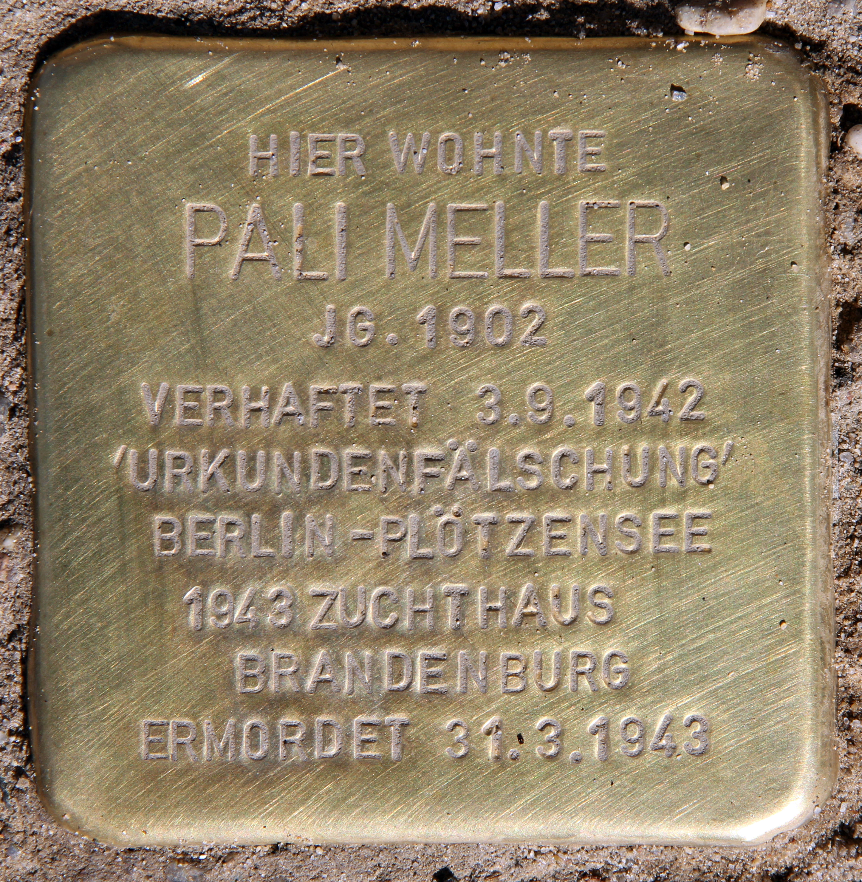 "Stolperstein" (stumbling block), Pali Meller, Knobelsdorffstraße 110, Berlin-Westend, Germany